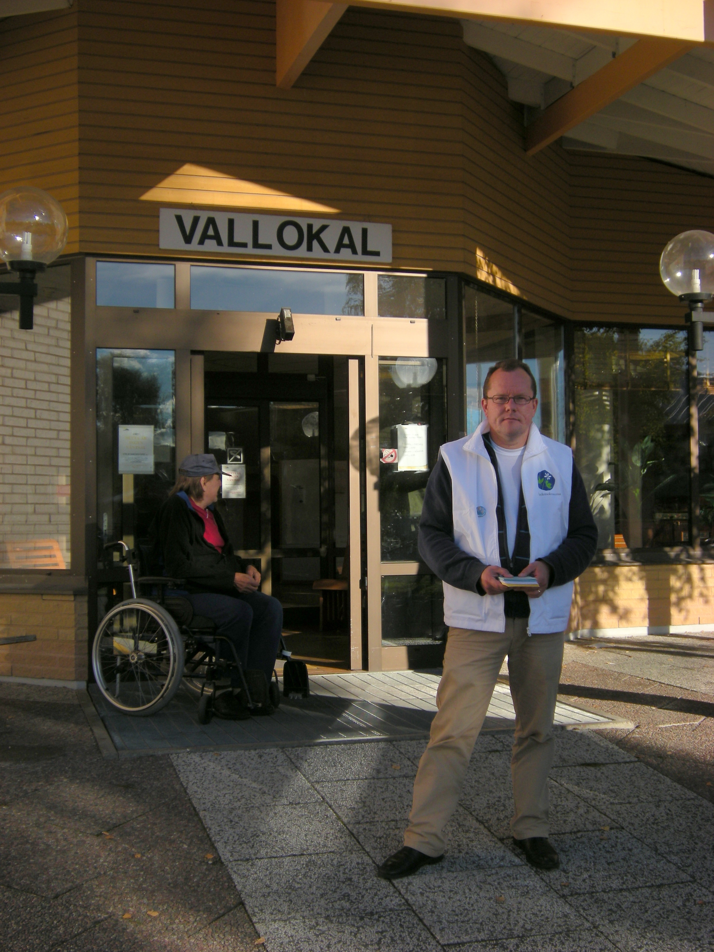 Swedish election 2010.